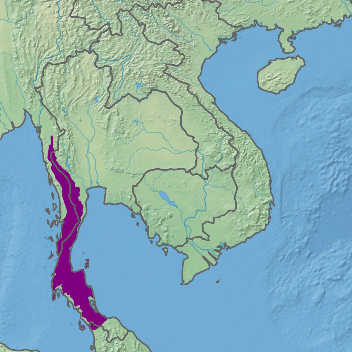 Ecoregion IM0163 - Tenasserim-South Thailand semi-evergreen rain forests (in purple)